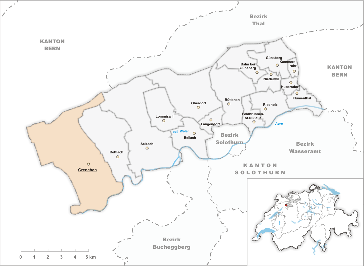 Municipality Grenchen